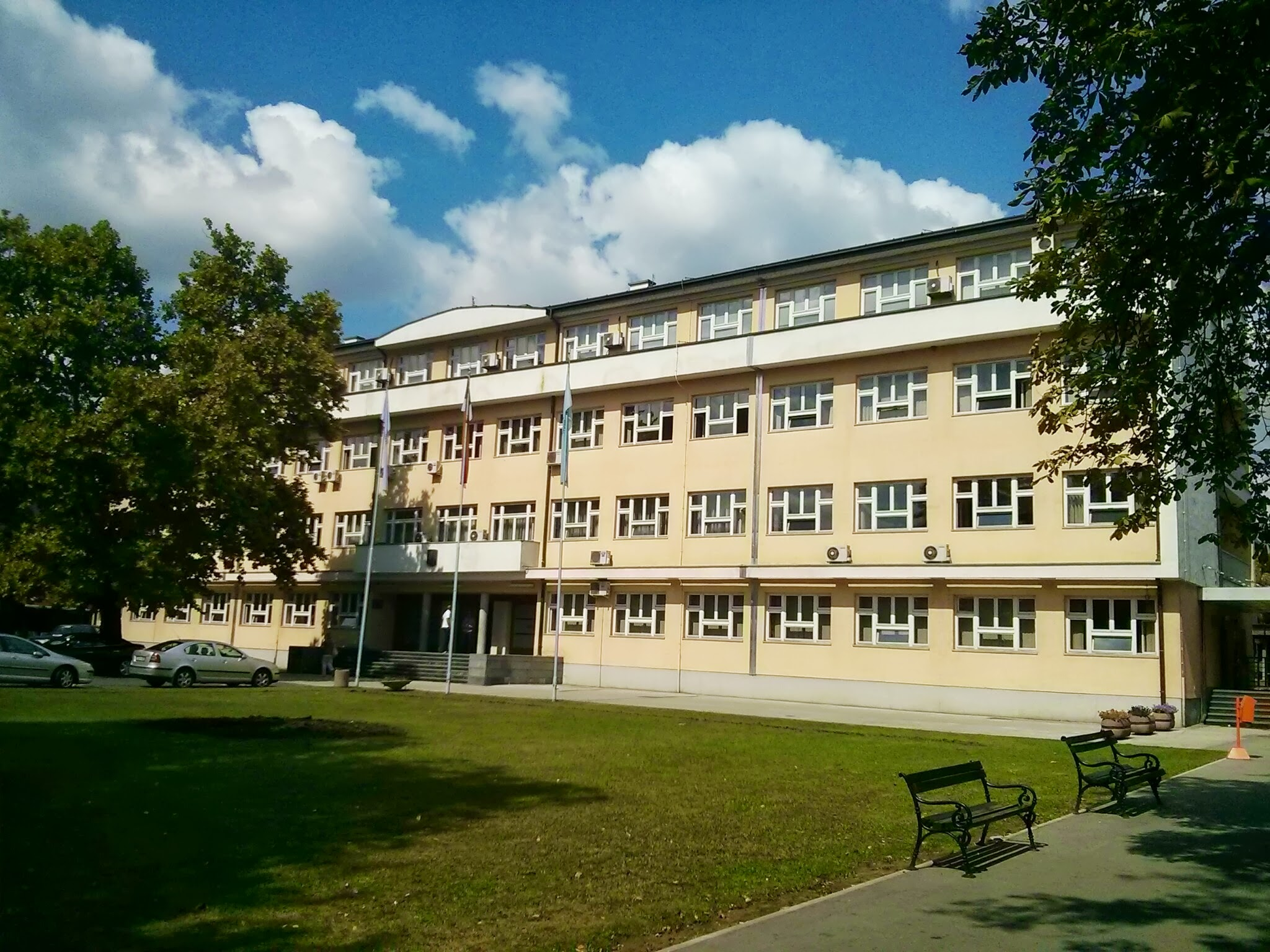 City Hall, Prijedor